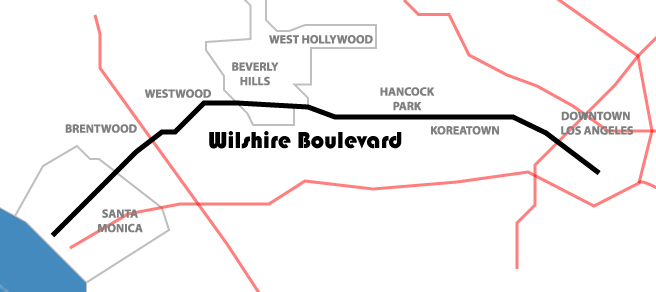 Map of Wilshire Boulevard - in Los Angeles and other cities of Los Angeles County, Southern California.